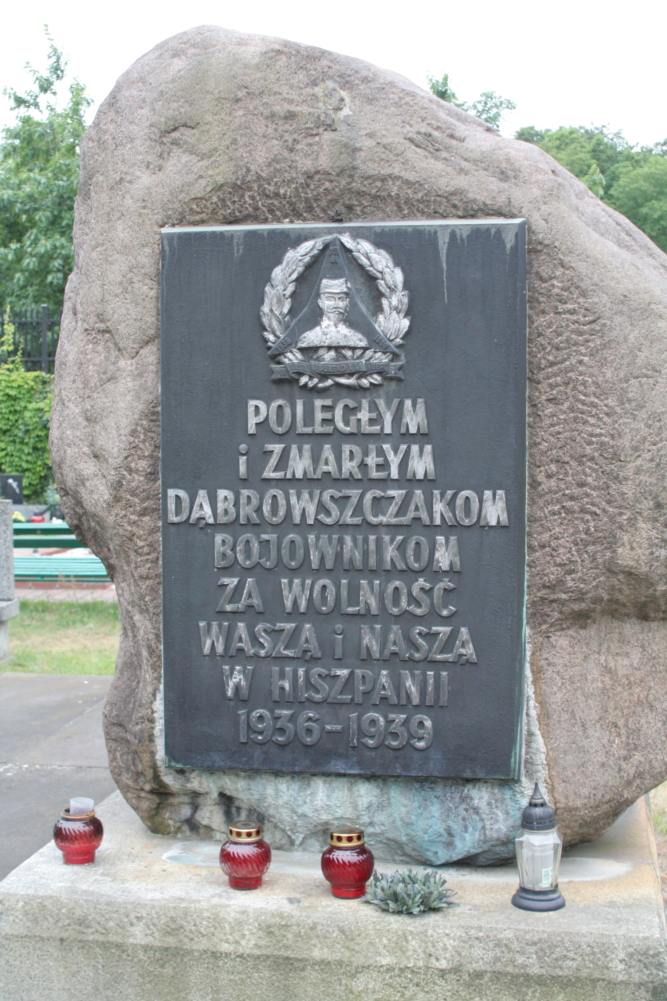 The monument of 13th International Brigade - often known as the XIII Dabrowski Brigade - which fought for the Spanish Second Republic in the Spanish Civil War in the International Brigades. Powązki Military Cemetery in Warsaw.